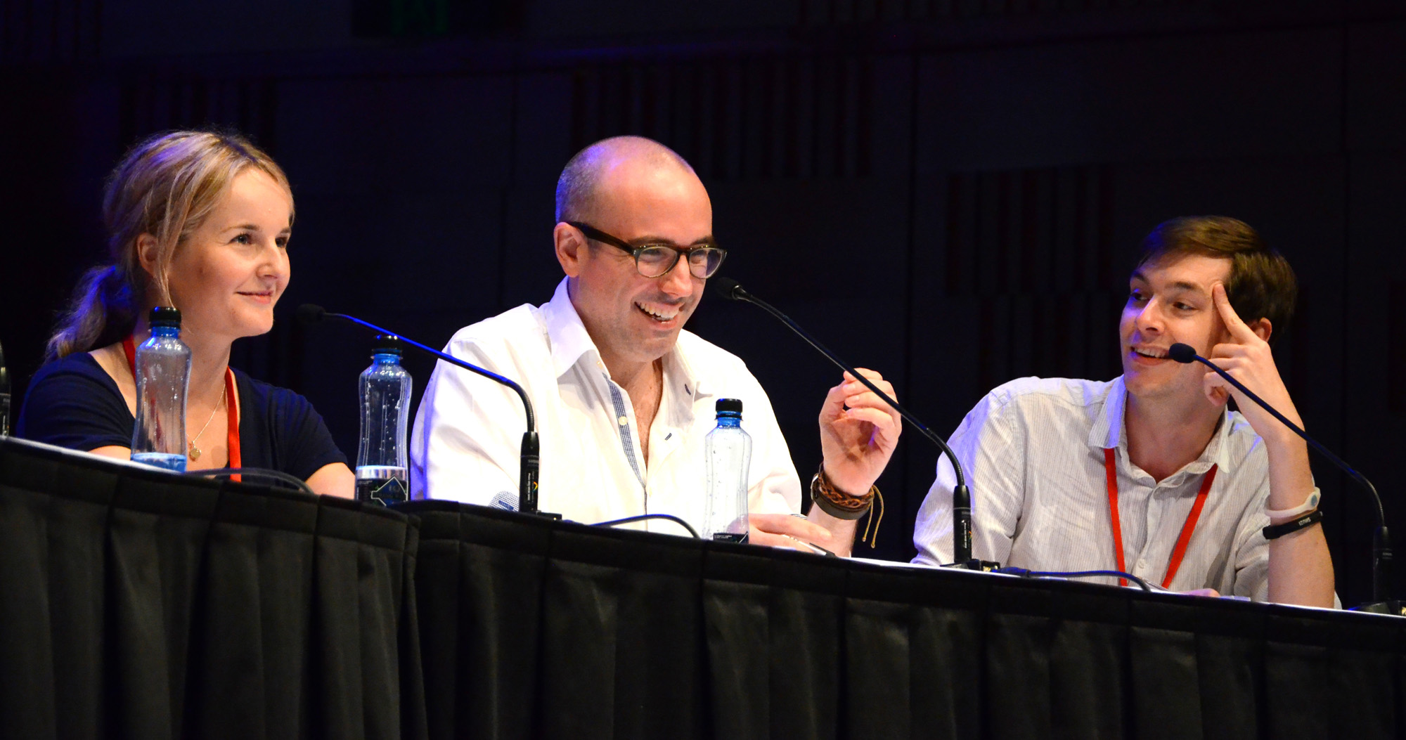 Kirsten Drysdale, Julian Morrow and Michael Marshall at Australian Skeptics National Convention 2014.